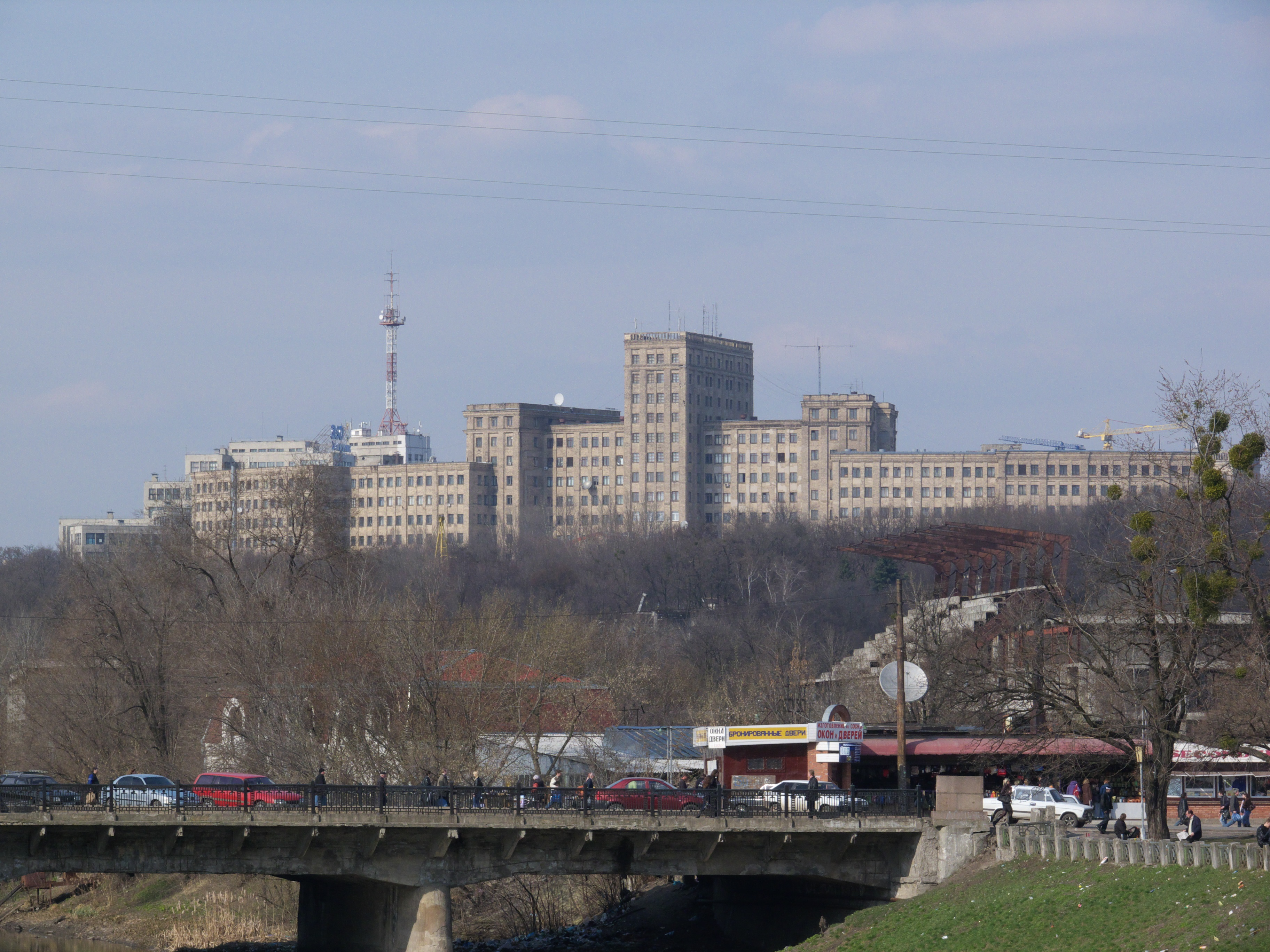 Kharkov University, 2008